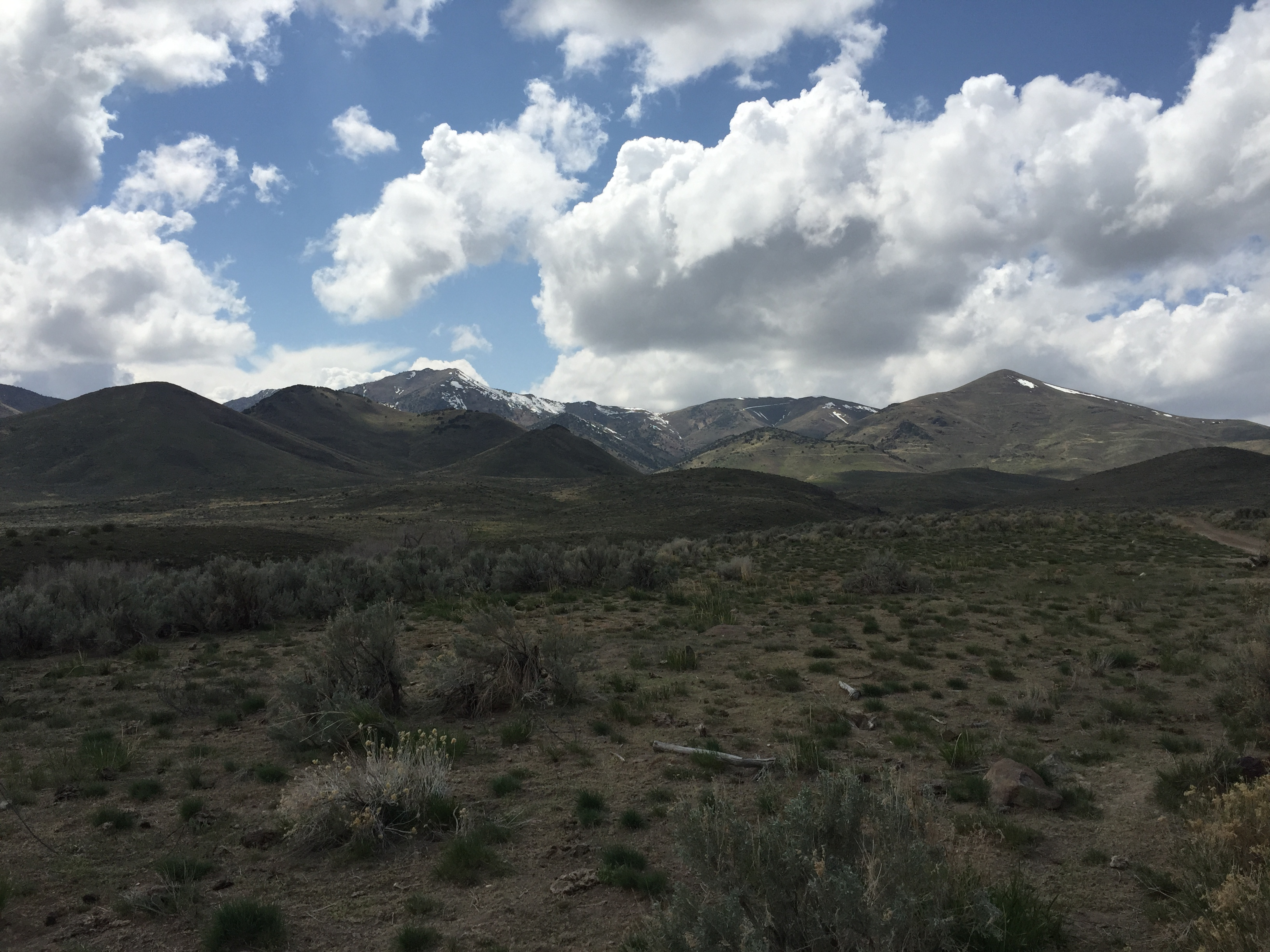 View of Bunker Hill in the Pinyon Range of Elko, Nevada from Bullion Road (Elko County Route 720) about 2.1 miles north of Bullion, Nevada